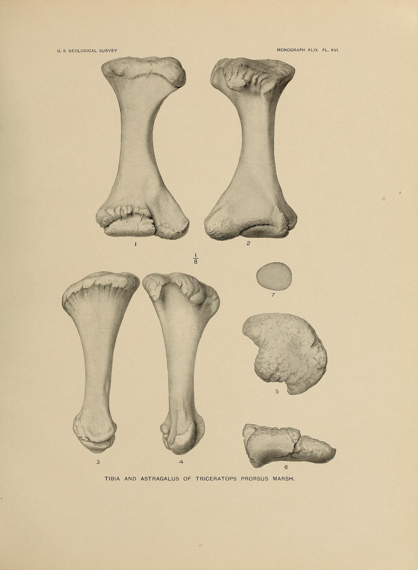 Tibia and astragalus of Triceratops prorsus Marsh.